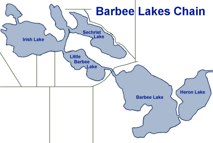 Sketch map of Barbee Lake chain in Indiana